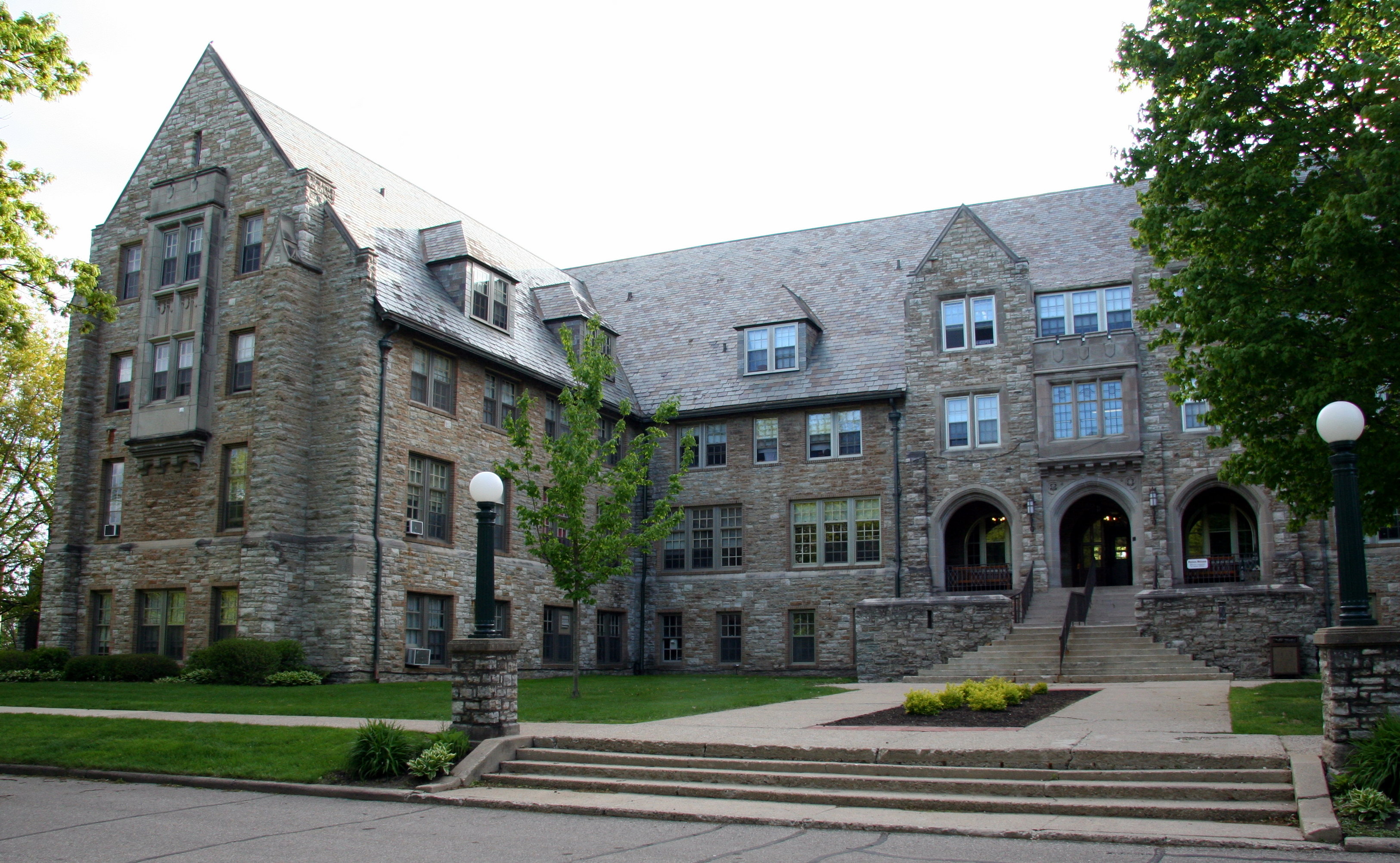 Saint Mary's Hall, Shattuck-Saint Mary's School, Faribault, Minnesota